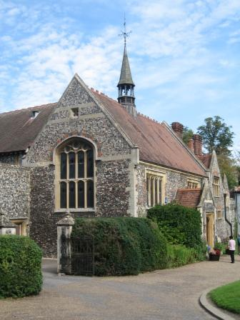 "Old School" at Thetford Grammar School. This was the entire School at the time Thomas Paine was a pupil